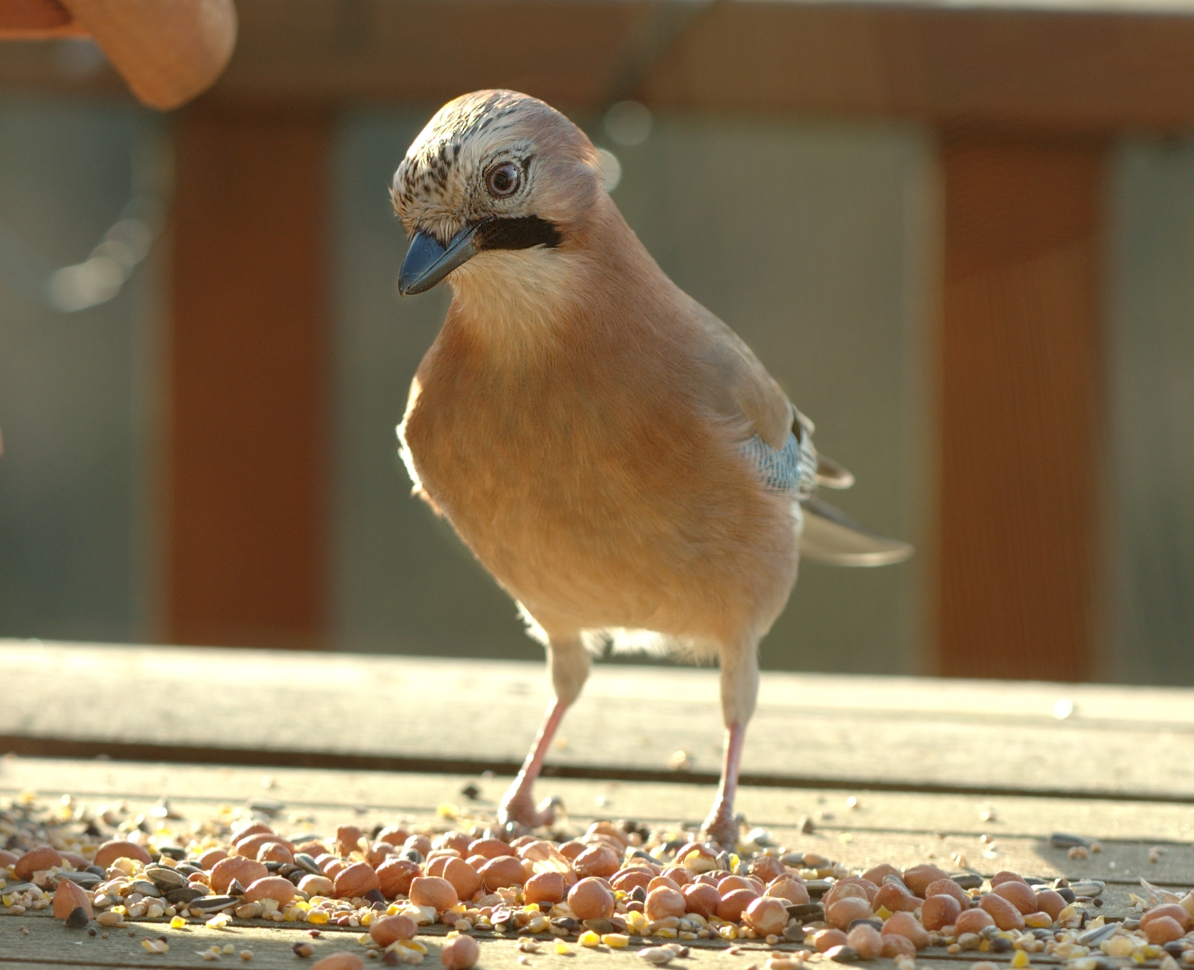 Garrulus glandarius in Belgium (Hamois).